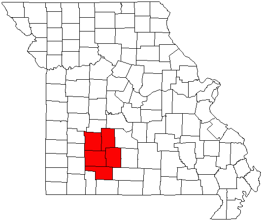 Map of Missouri highlighting the Springfield Metropolitan Area